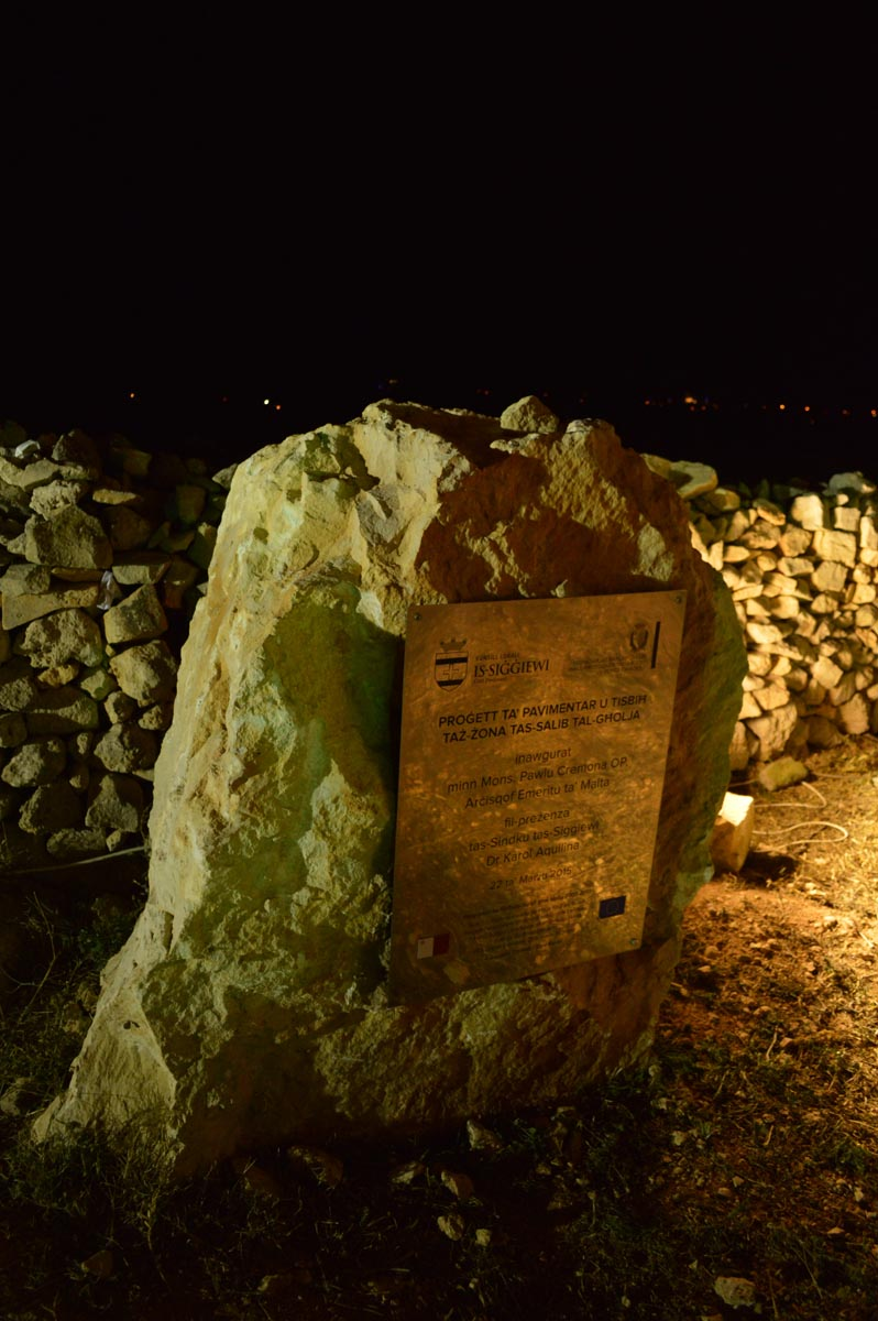 Commemorative plaque of the restoration works made to the locality surrounding the Laferla Cross shrine.